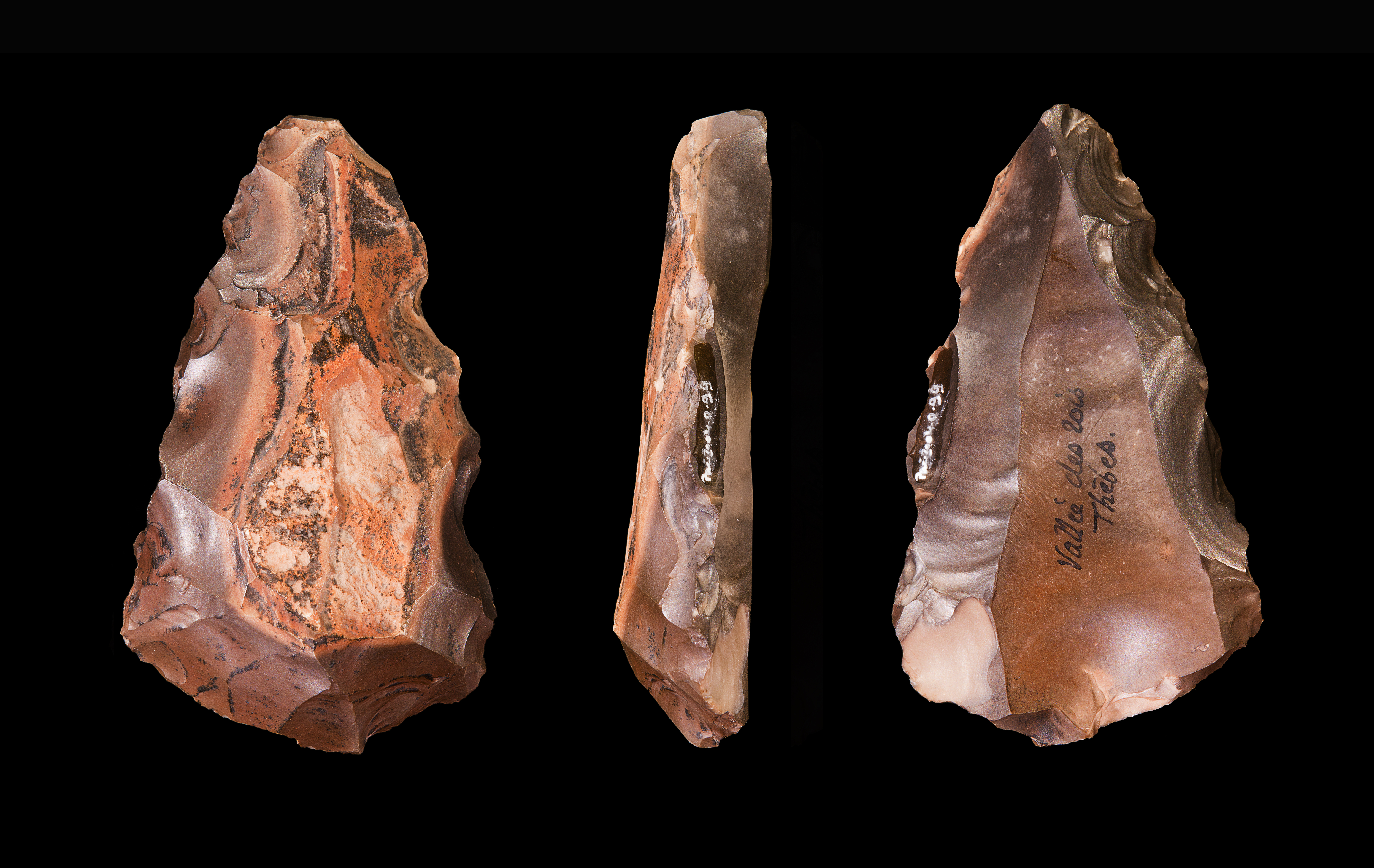 Lithic core pointed - Different views of the same specimen Stage : middle Paleolithic (between - 300 000 and - 30 000 era=BP) Material : Flint. Size : 8.8x5.1x2 cm Place of discovery : Valley of the Kings, Thebes, Egypt.